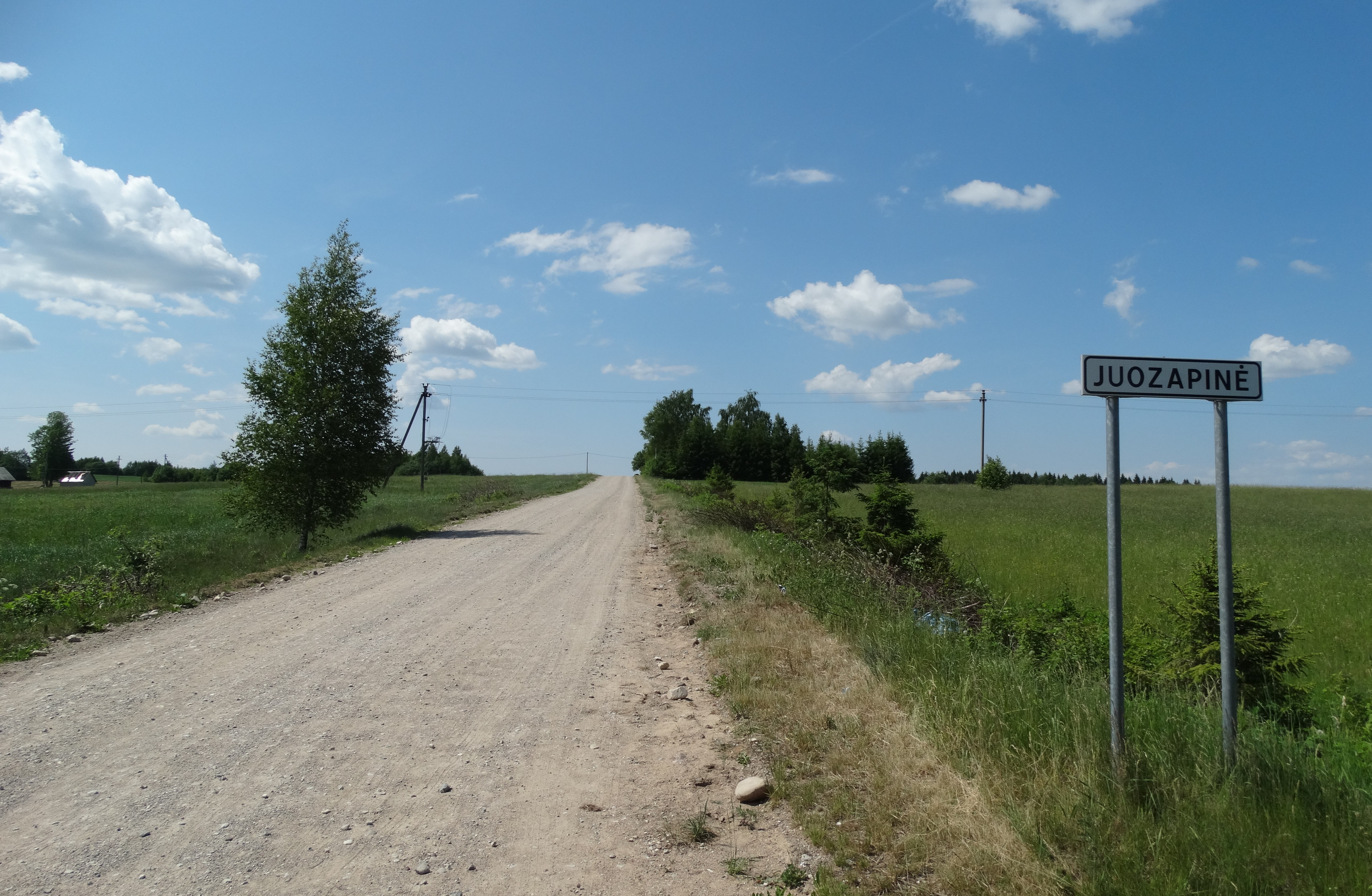 Juozapinė, Vilnius District, Lithuania